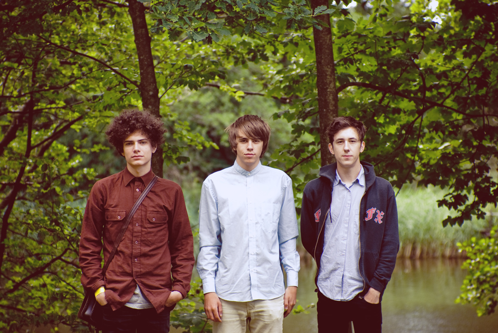 Act Strange from Sweden